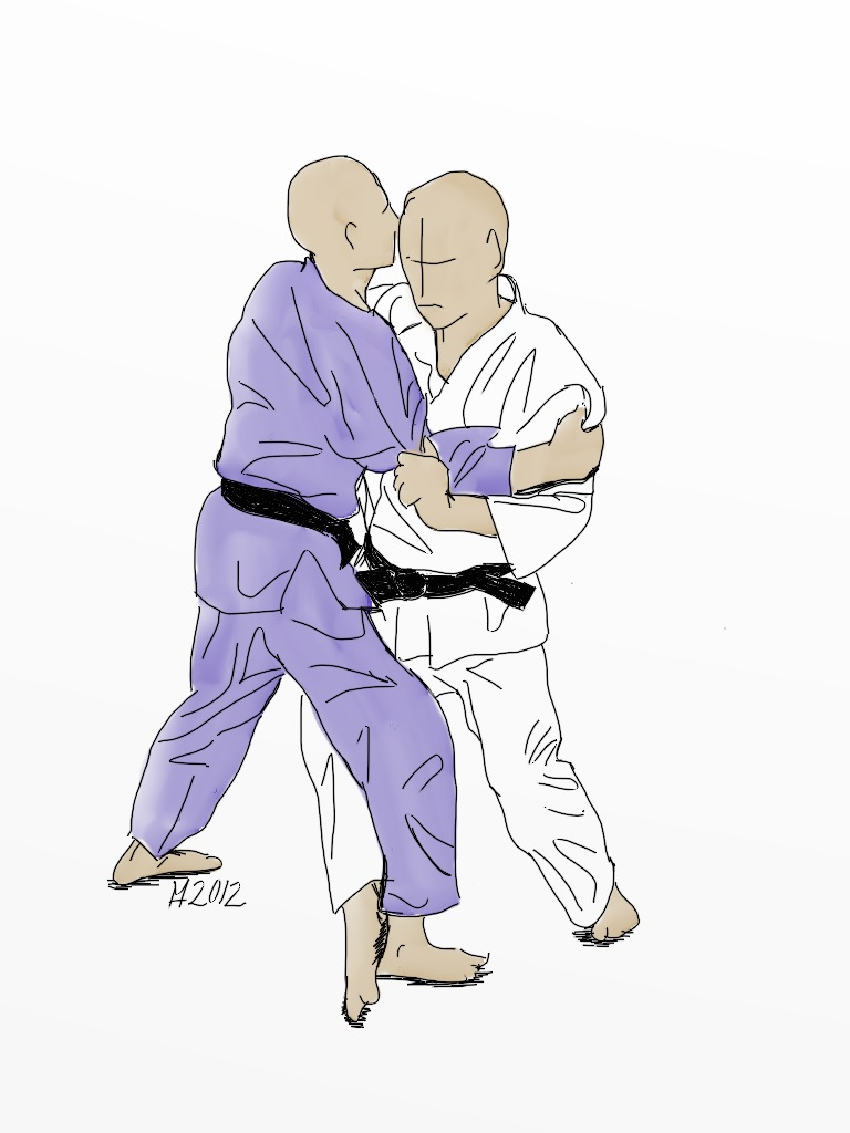 Illustration of the judo throw ko-uchi-gari, or minor-inner-reap, where you push the opponent backwards and sweep the opponents foot with your foot from the inside.